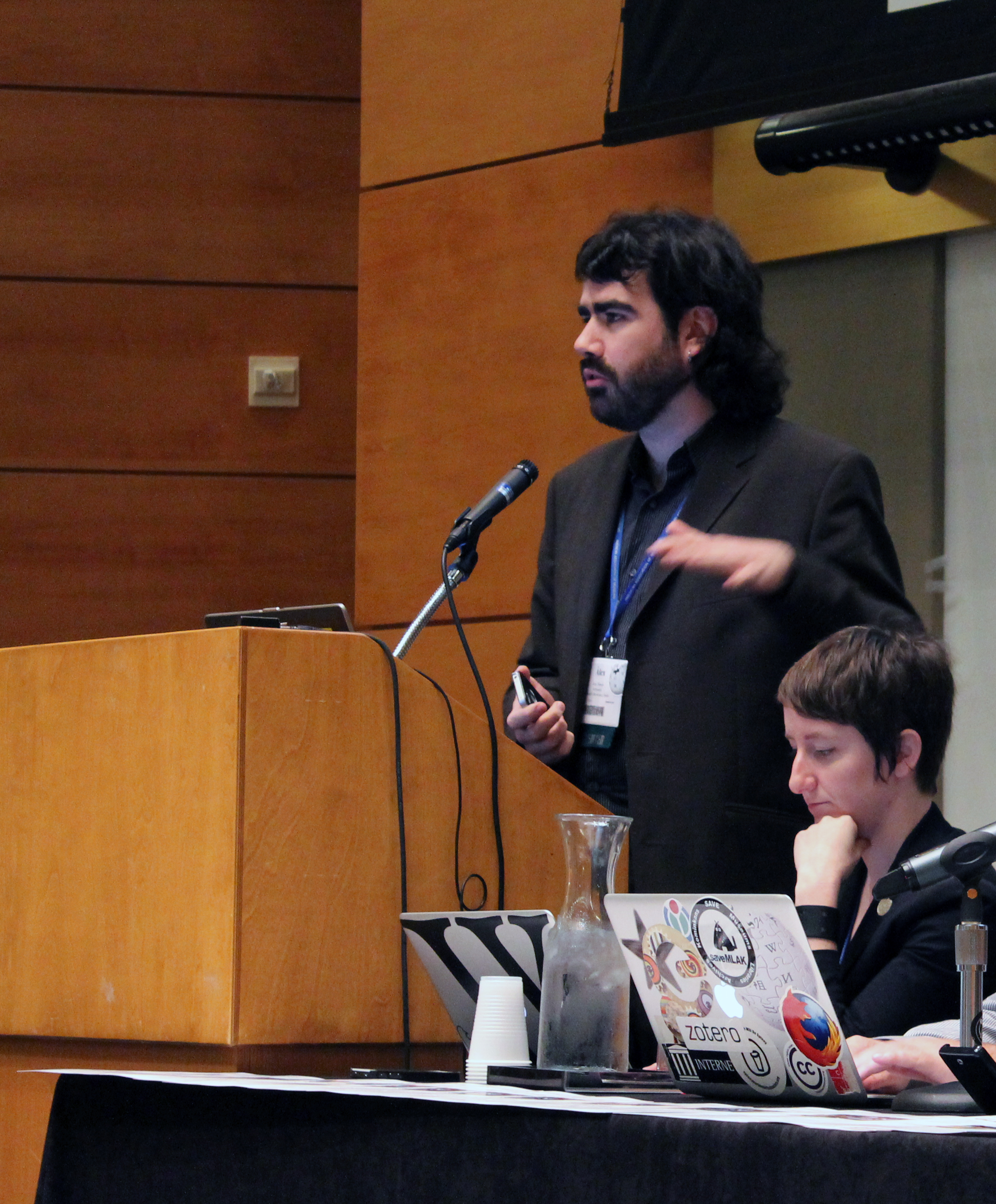 Sarah Stierch, Liam Wyatt and Lori Byrd Phillips at American Associations of Museums 2012